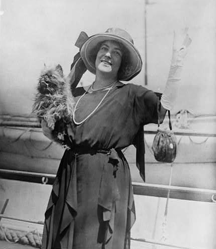 Three-quarter length portrait of Frances Alda, standing on deck of ship, facing front, holding dog. Photo also advertises her Victor Red Seal Record, "Daddy".